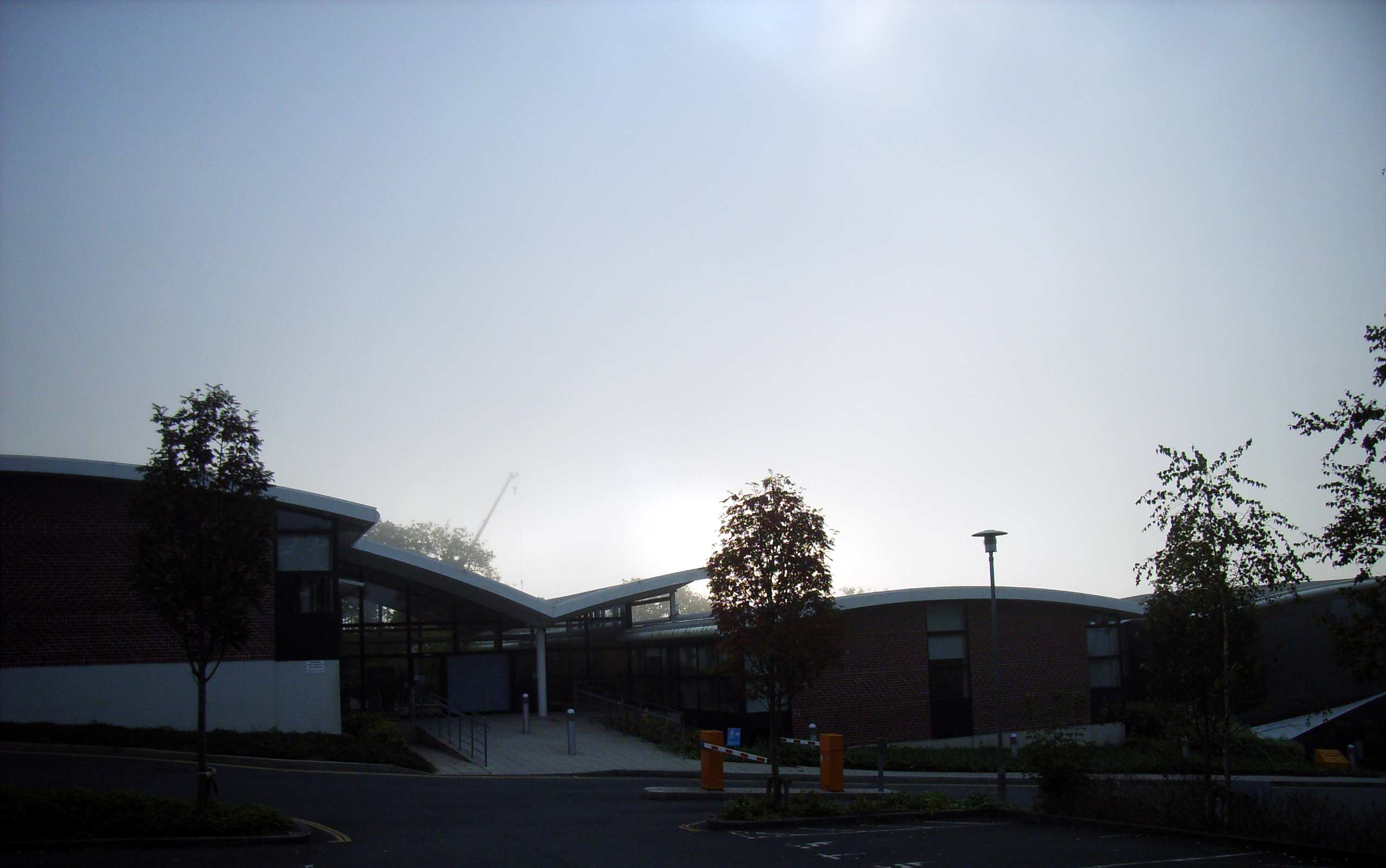 Tamar Science Park